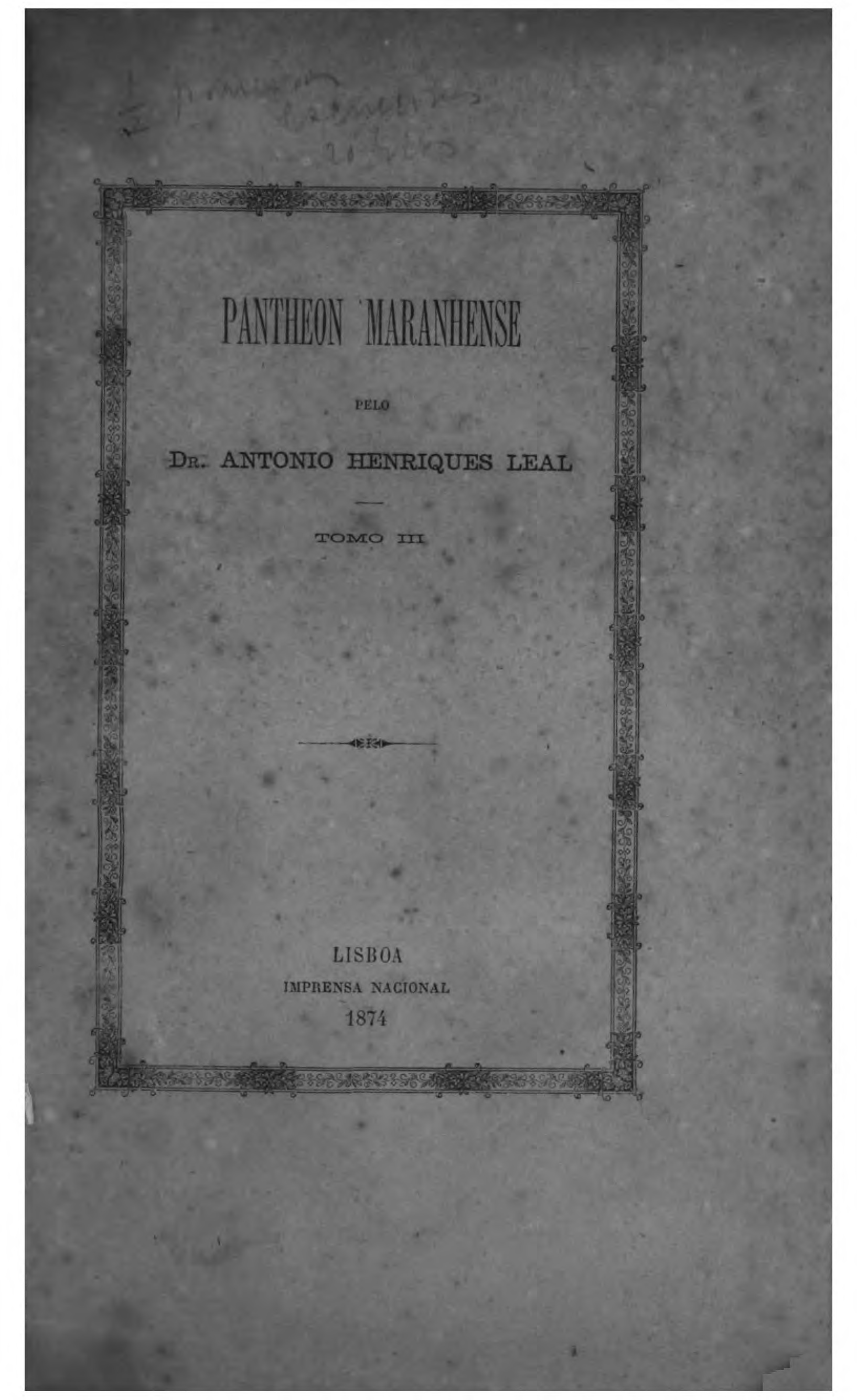 contra-capa